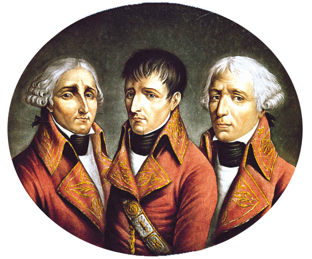 The Three French Consuls (Jean-Jacques Régis de Cambacérès, Napoléon Bonaparte, Charles-François Lebrun)